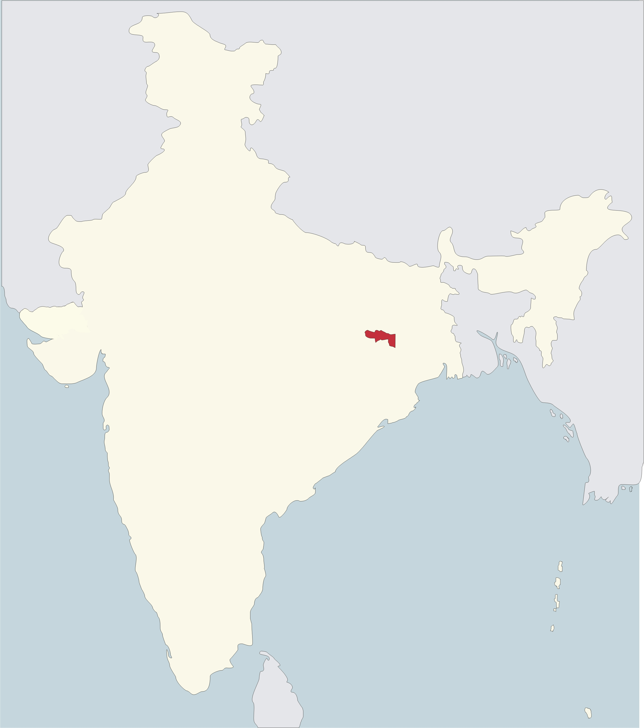 Map of the Roman Catholic Archiocese of Ranchi in India